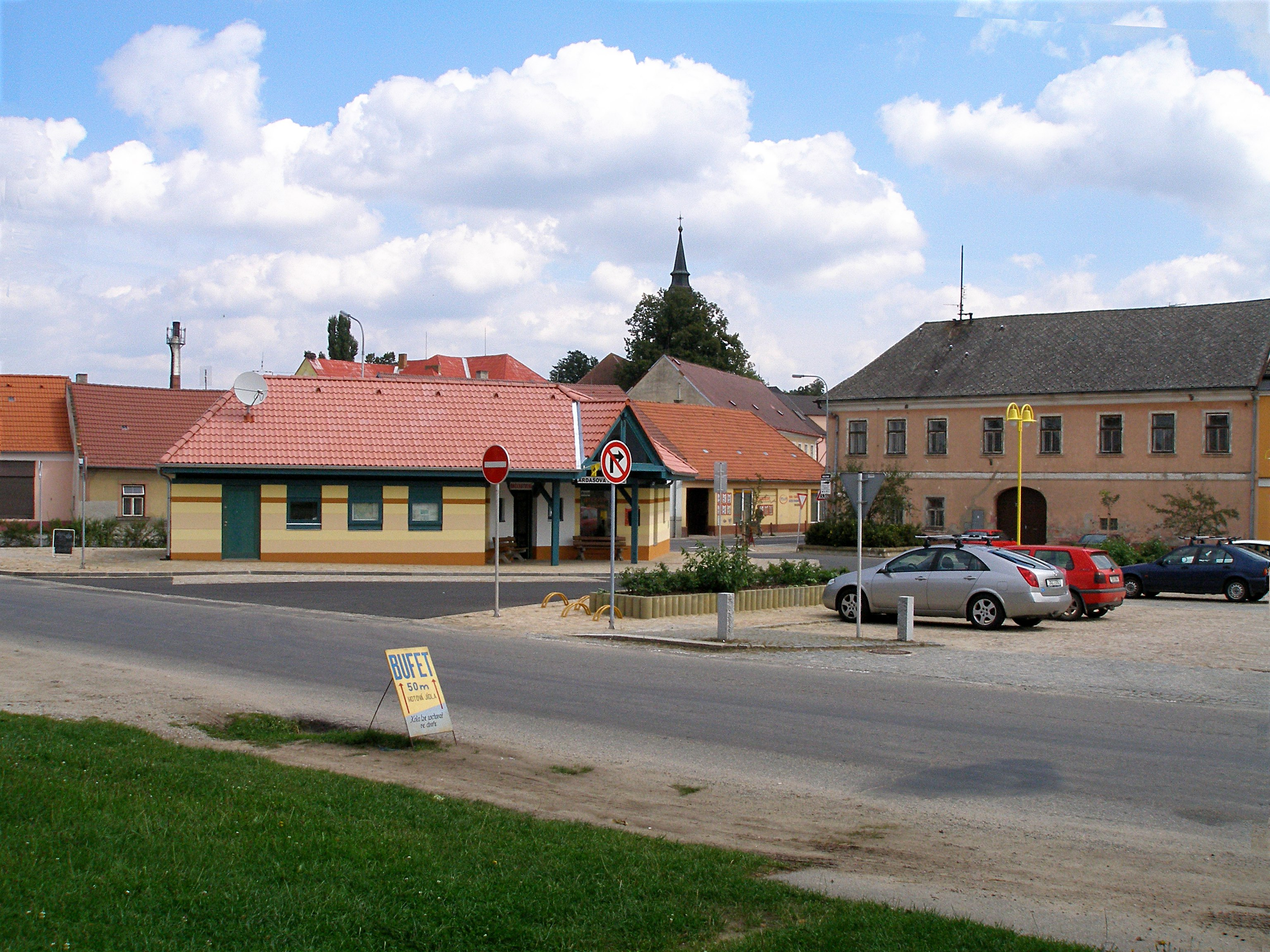 Kardašova Řečice - the north-eastern corner of the Jaromír Hrubý Square